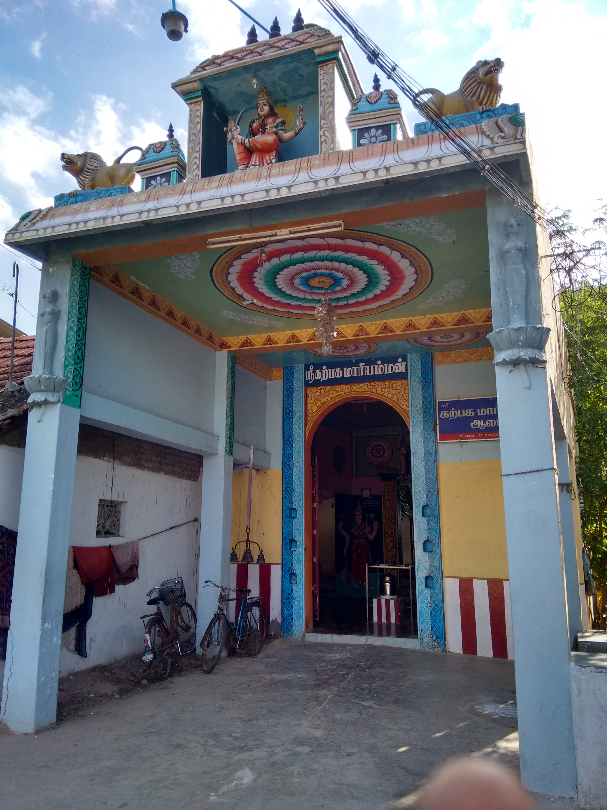 காளைசந்திக்கட்டளை கற்பகமாரியம்மன்கோயில் kalasanthikattalai karpagamariamman temple